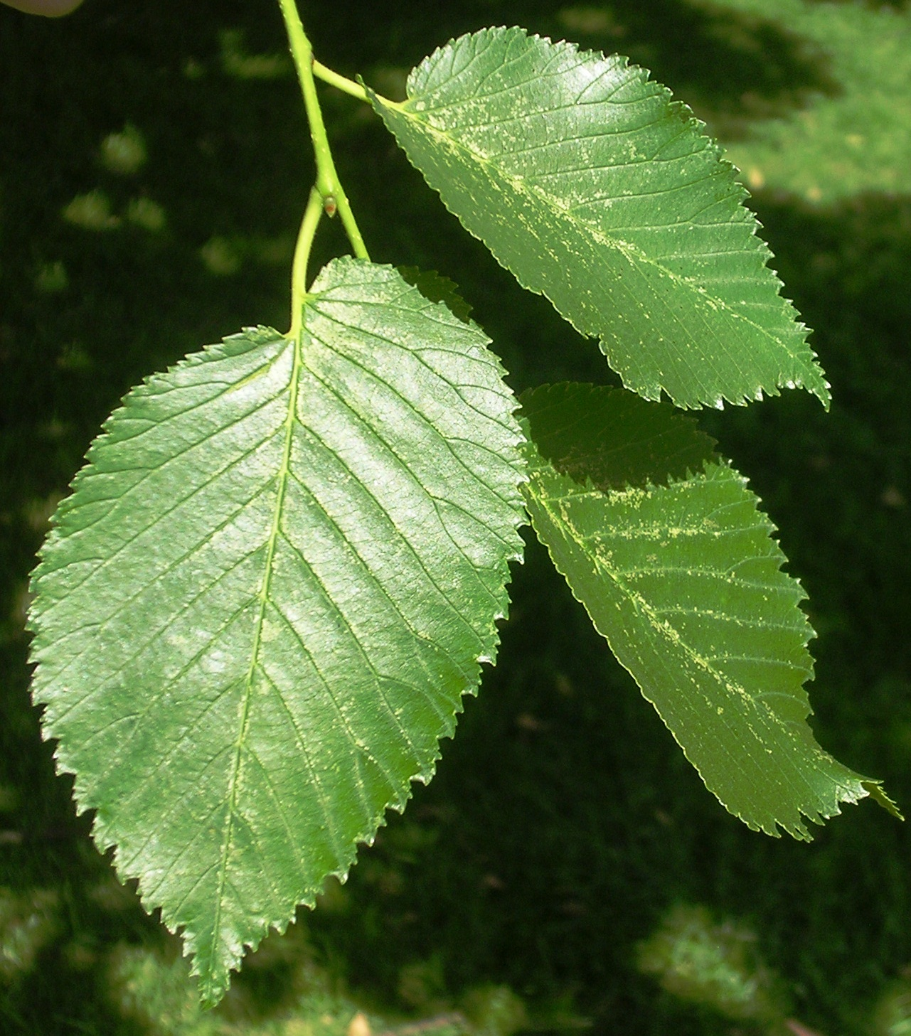 Photo taken by author at Soouthsea Common, June 2008.